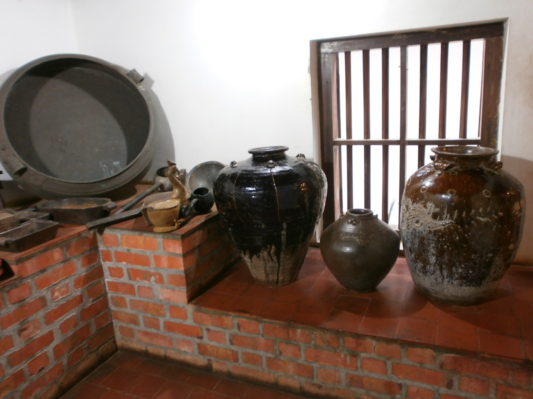 Dakshina-Chitra-Household-Items-3